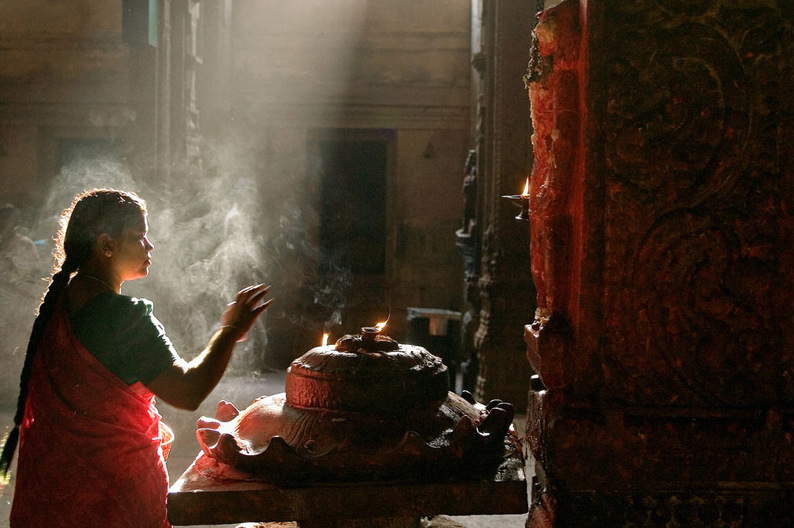 A woman praying Hanuman, the monkey god in the Madurai Meenaskshi temple.